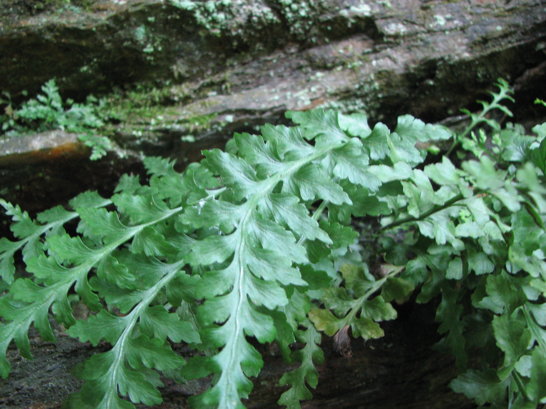 Large specimen of Trudell's spleenwort (Asplenium × trudellii). Lock 12, York County, Pennsylvania.